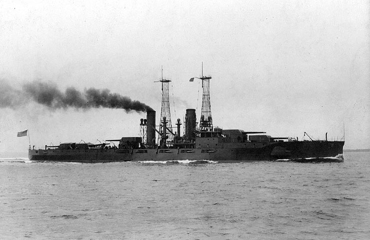 USS_North_Dakota_(BB-29) running sea trials in 1909